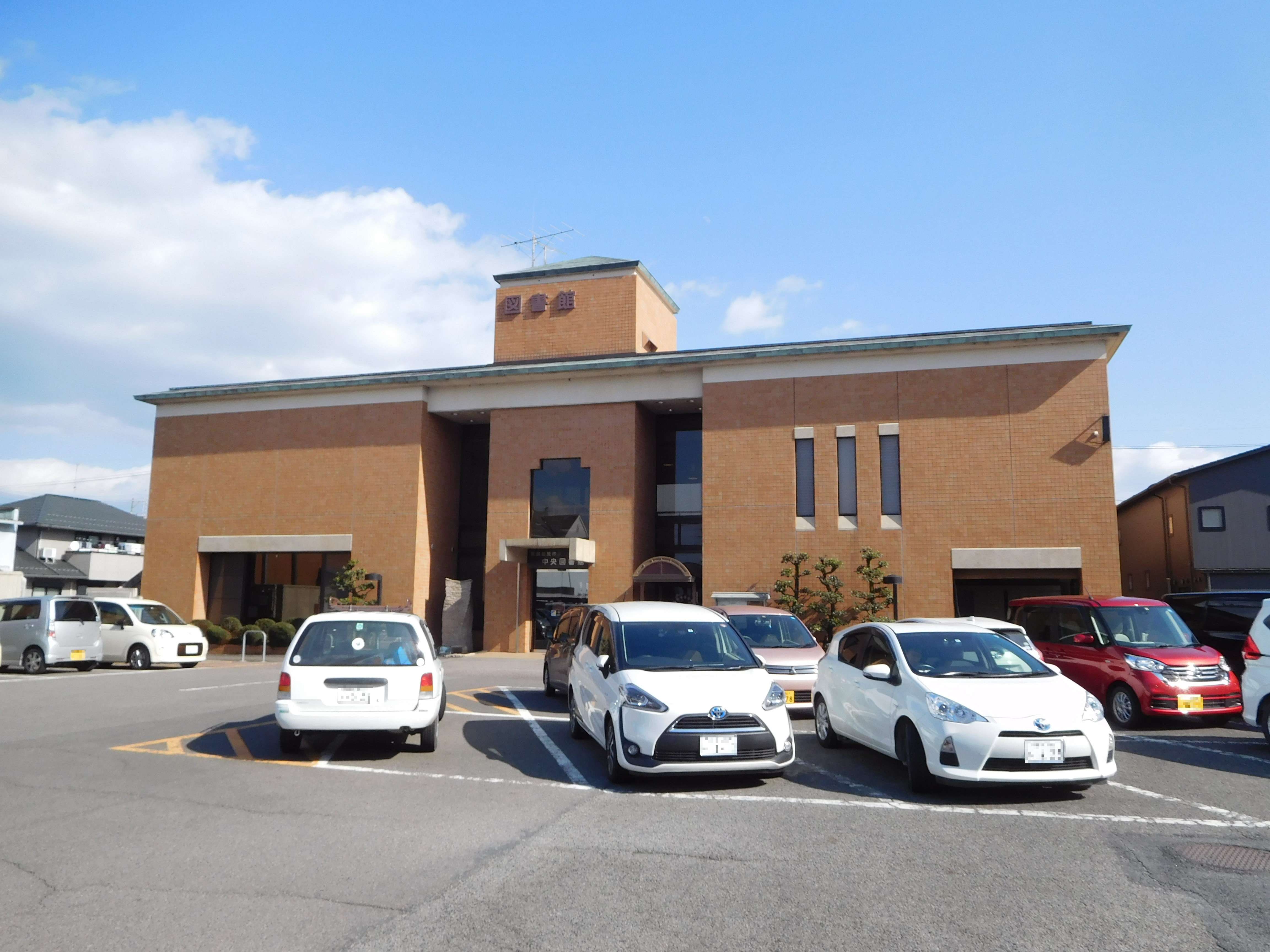 This is Chuo Library of Minokamo Municipal Library, in Minokamo, Gifu, Japan.